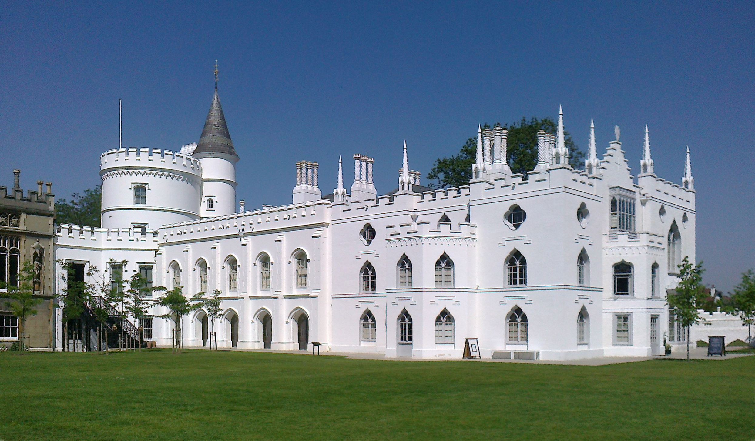 Horace Walpole's Twickenham house, Strawberry Hill, gleaming white in spring sunshine, soon after restoration.